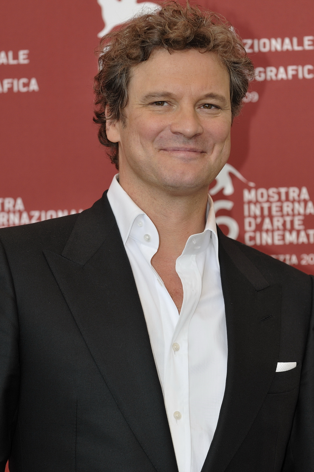 Colin Firth at 2009 Venice Film Festival